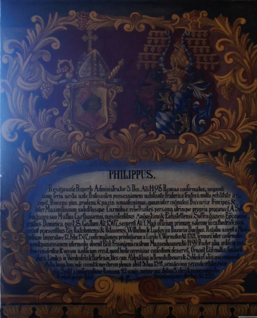 Wappentafel von Philipp von der Pfalz, Fürstbischof von Freising, im Fürstengang zwischen Fürstbischöflicher Residenz und Freisinger Dom. Links das geistliche, rechts das persönliche Wappen, darunter ein lateinischer Text mit kurzer Biographie.